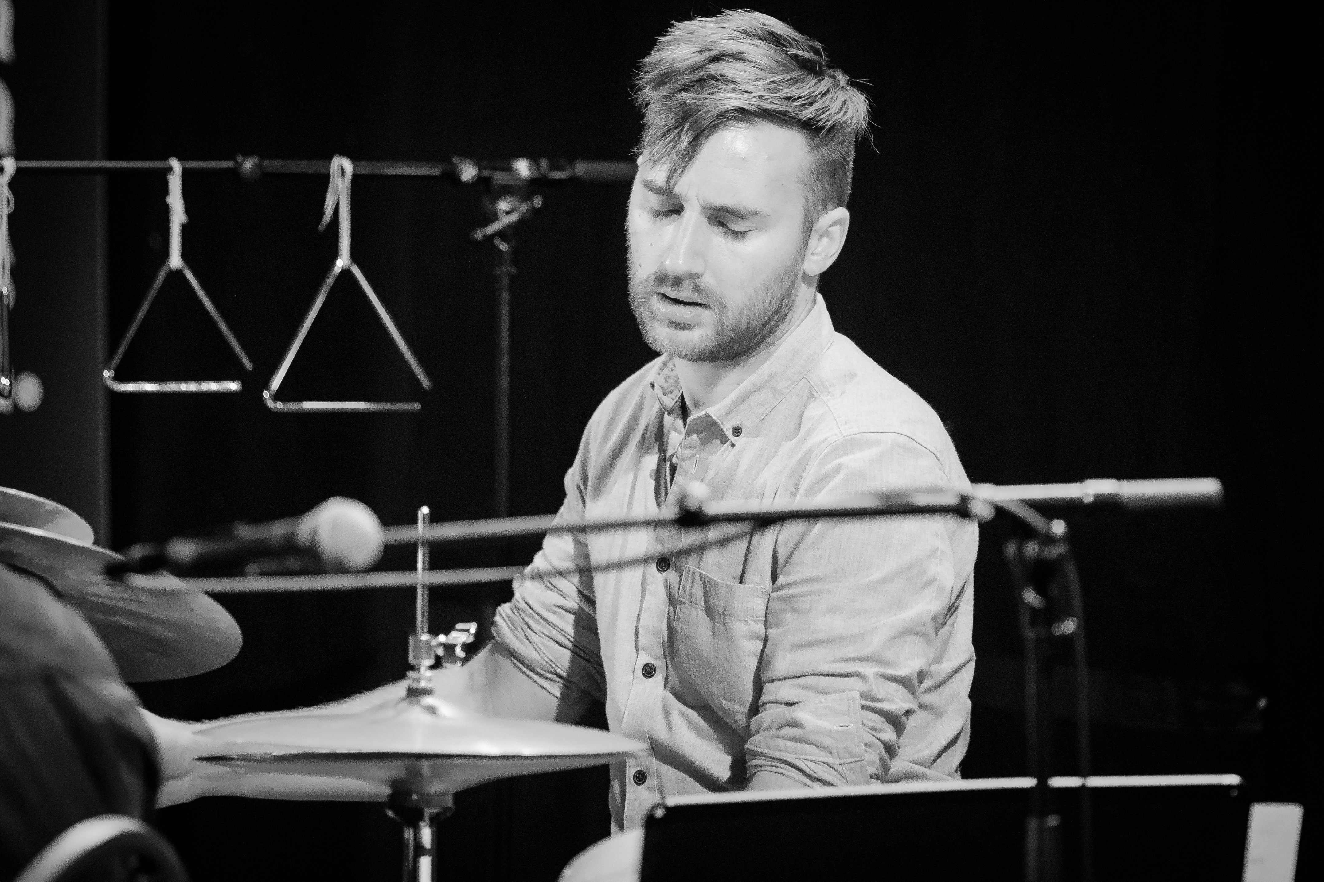 Jakop Janssønn on stage with Daniel Herskedal quartet at Thon Hotel Jølster. The concert was part of Jazz på Jølst and took place on 13. October 2018 in Jølster. Lineup: Daniel Herskedal (tuba) Jakop Janssønn (percussion) Helge Lien (piano) Bergmund Skaslien (viola)